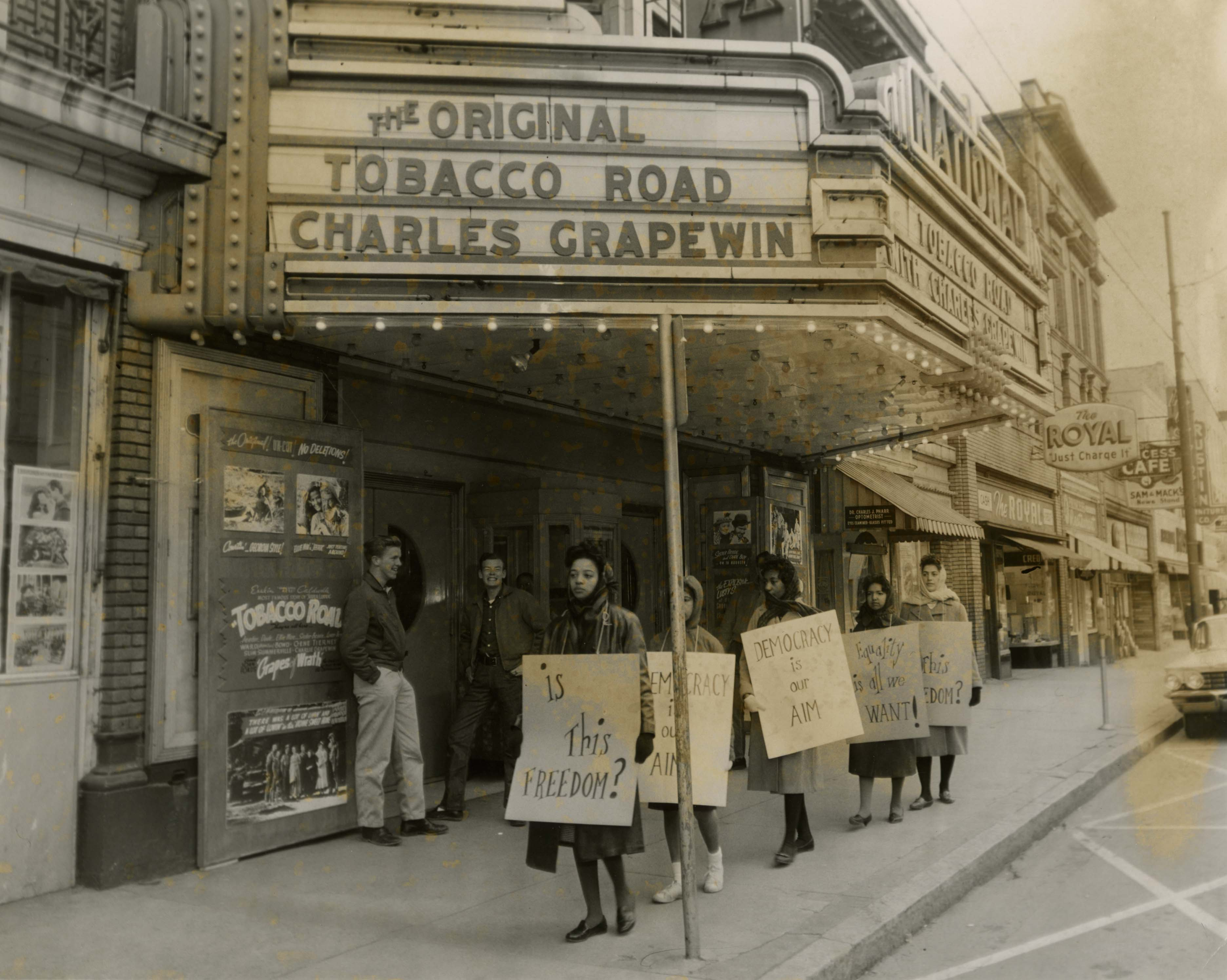 Bennett Belles participated in the Greensboro Sit-In Movement.